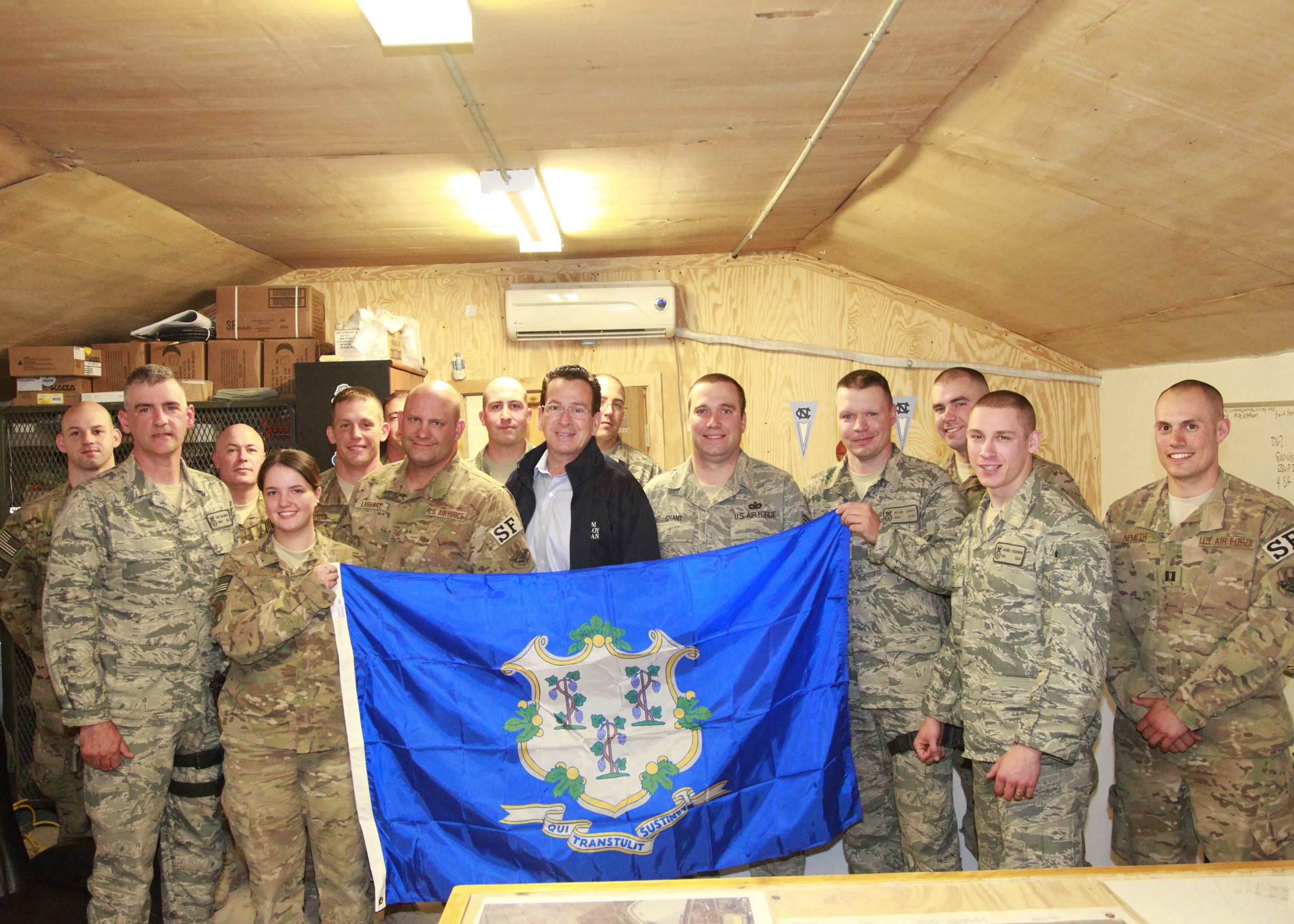 Wednesday, November 16, 2011 -- Connecticut Governor Dannel P. Malloy poses to take a photo with soldiers from East Granby, Connecticut of the 103rd Security Forces Squadron (CT ANG) stationed at Bagram Airfield during his visit to Afghanistan on November 16, 2011. (U.S. Army photo by Spc. Anthony Murray Jr/Released)